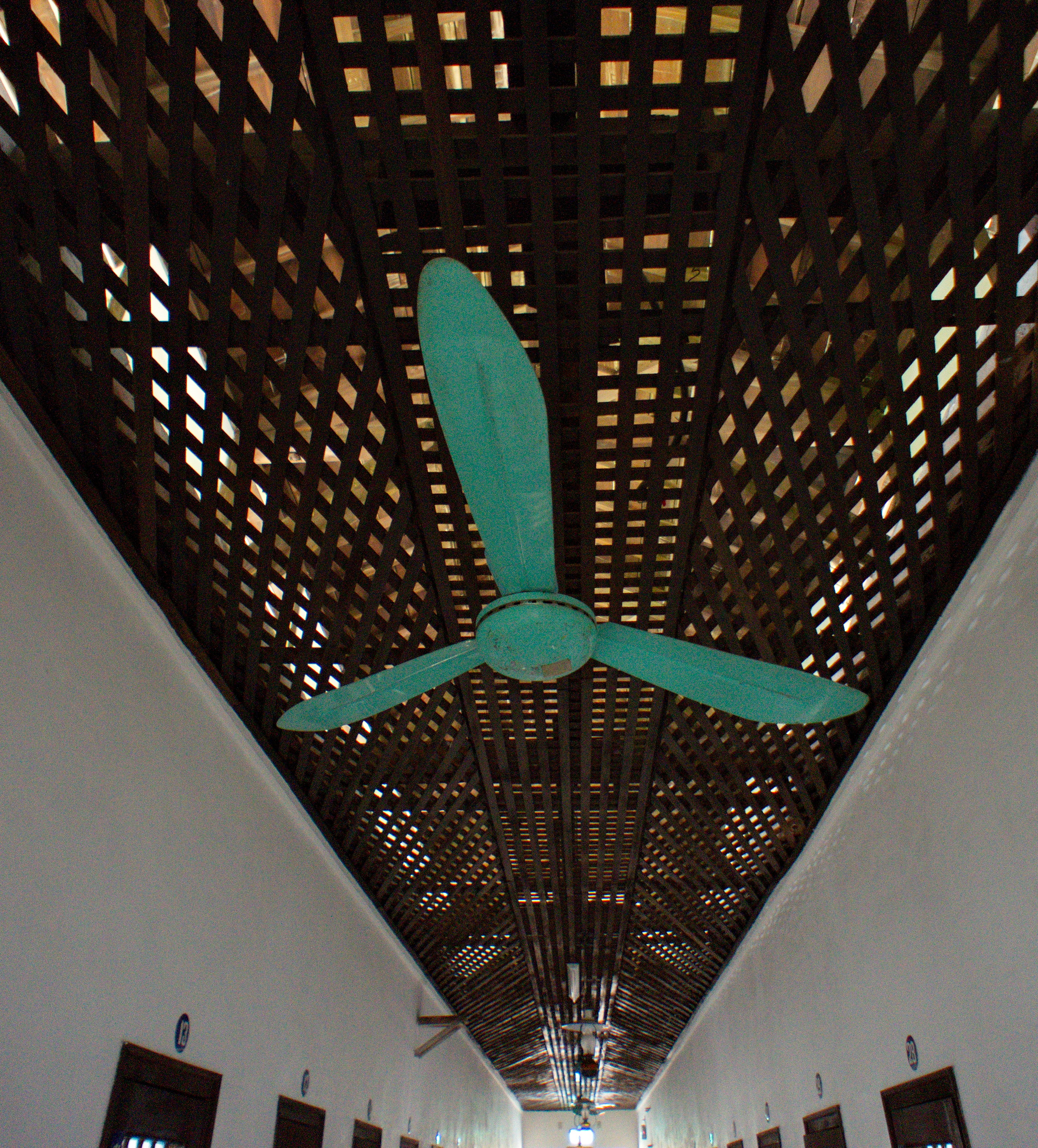 Surveillance Corridor in the Old Chiayi Prison, Chiayi City, Taiwan.